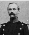 Caesar Ruestow (June 18, 1826 – July 4, 1866)